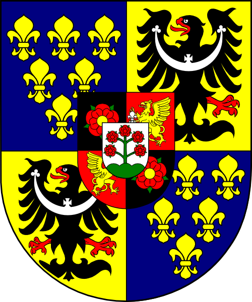 Coat of arms (shield only) of Sebastian Ignaz von Rostock, bishop of Wrocław, Poland (1665 - 1671). Alternative tinctures and gryffin (holding fleur-de-lis) version based on this